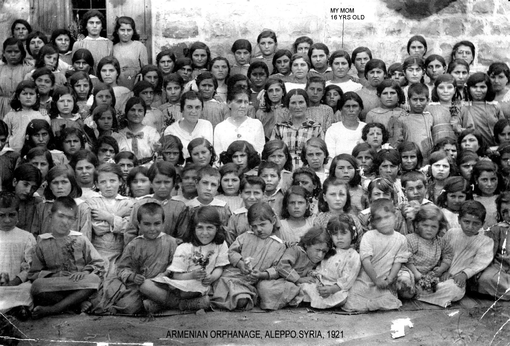 survivors of the death marvh and genocide of Armenians after 1915